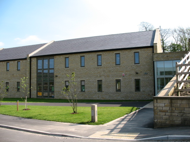 National Park Offices at Bainbridge The YDNP authority moved from the cramped and inadequate Yorebridge House to this new building at the top end of the village in 2006. The authority has other offices in Grassington.